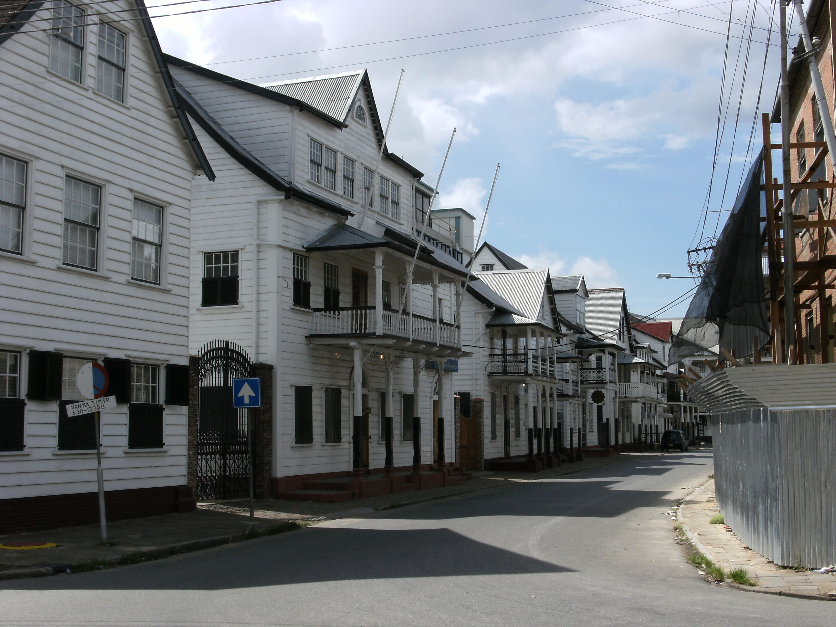 Paramaribo. Lim A Postraat.